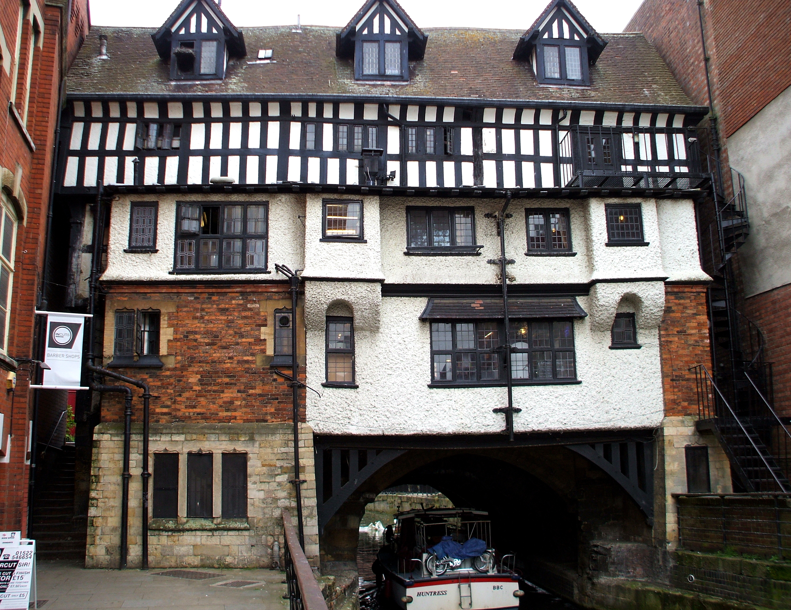 The High Bridge in Lincoln, England, is the oldest bridge in the United Kingdom which still has buildings on it. The arch is known locally as 'The Glory Hole'.